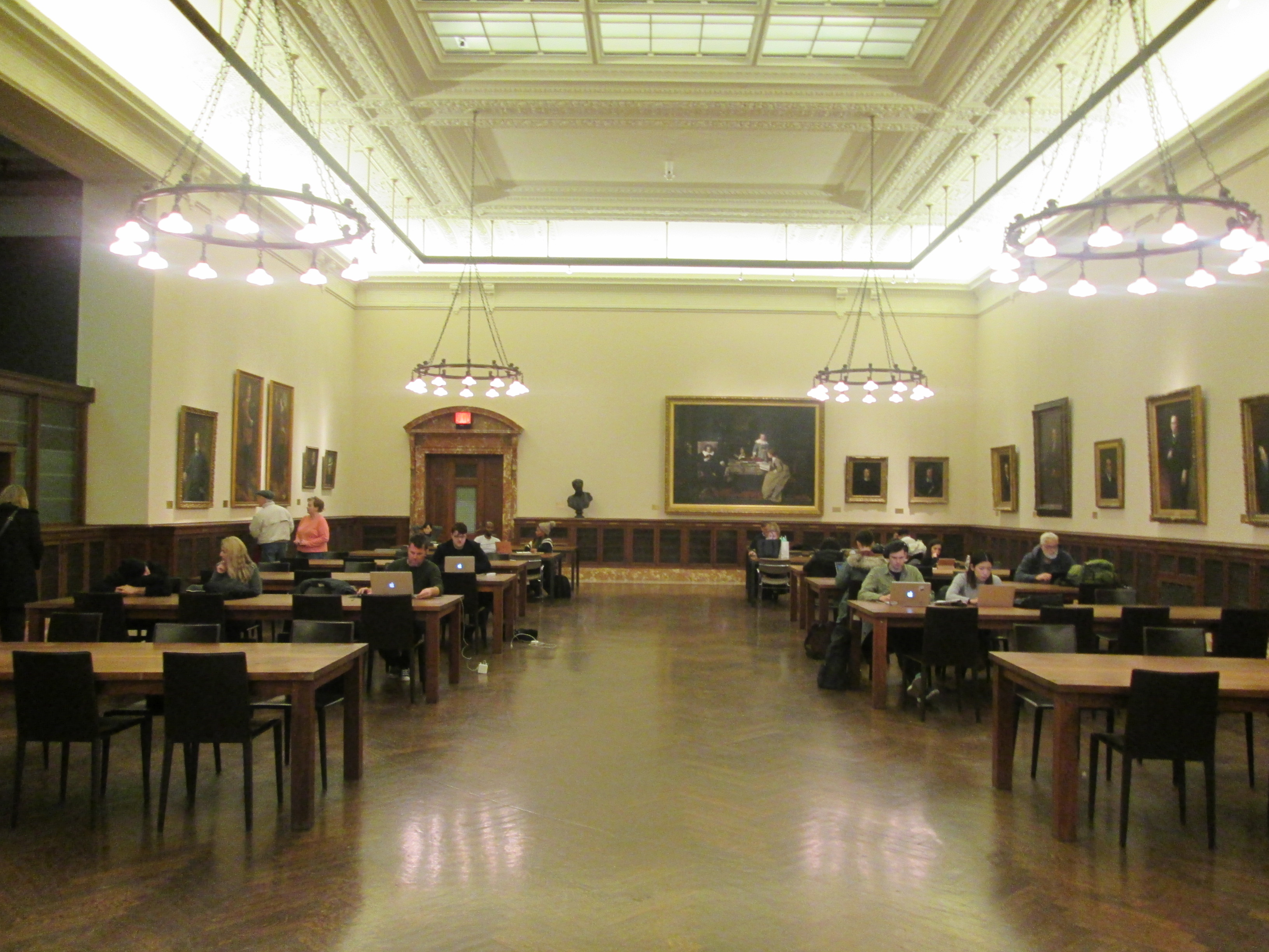 The interior of the New York Public Library Main Branch, seen on December 20, 2018